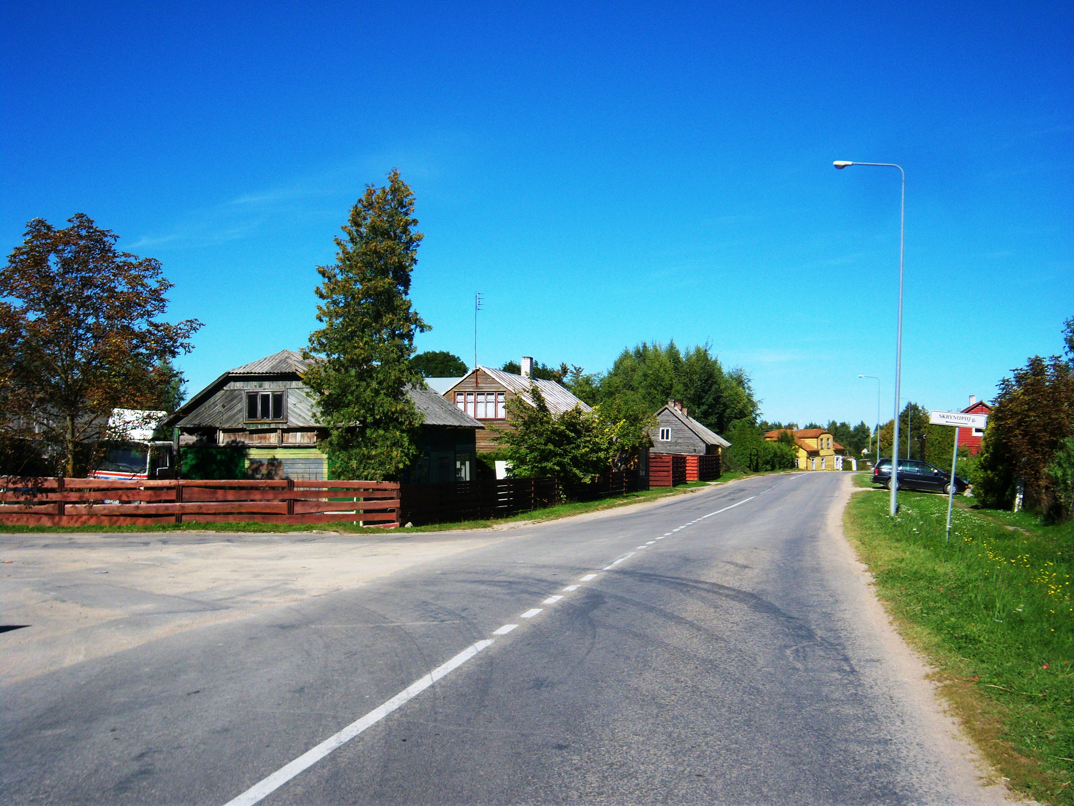 Griškabūdis, Skrynupių Street, Šakiai District, Lithuania